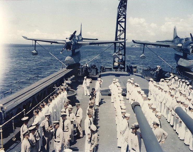 Personnel inspection on the afterdeck of the Cleveland-class light cruiser USS Biloxi (CL-80), during her shakedown period, circa October 1943. Note her aircraft catapults, with Curtiss SO3C-3 Seamew floatplanes on top, and her hangar hatch cover.